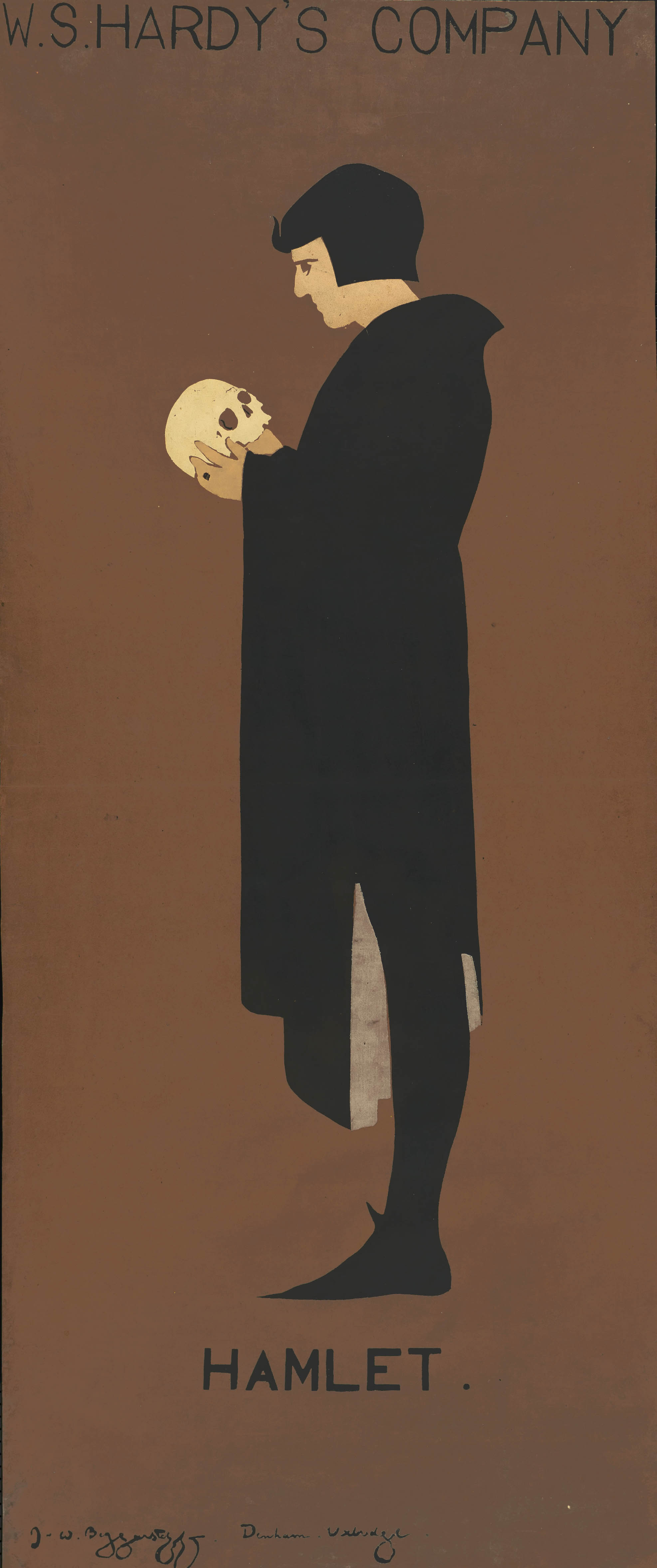 Hamlet. Poster for W. S. Hardy Company